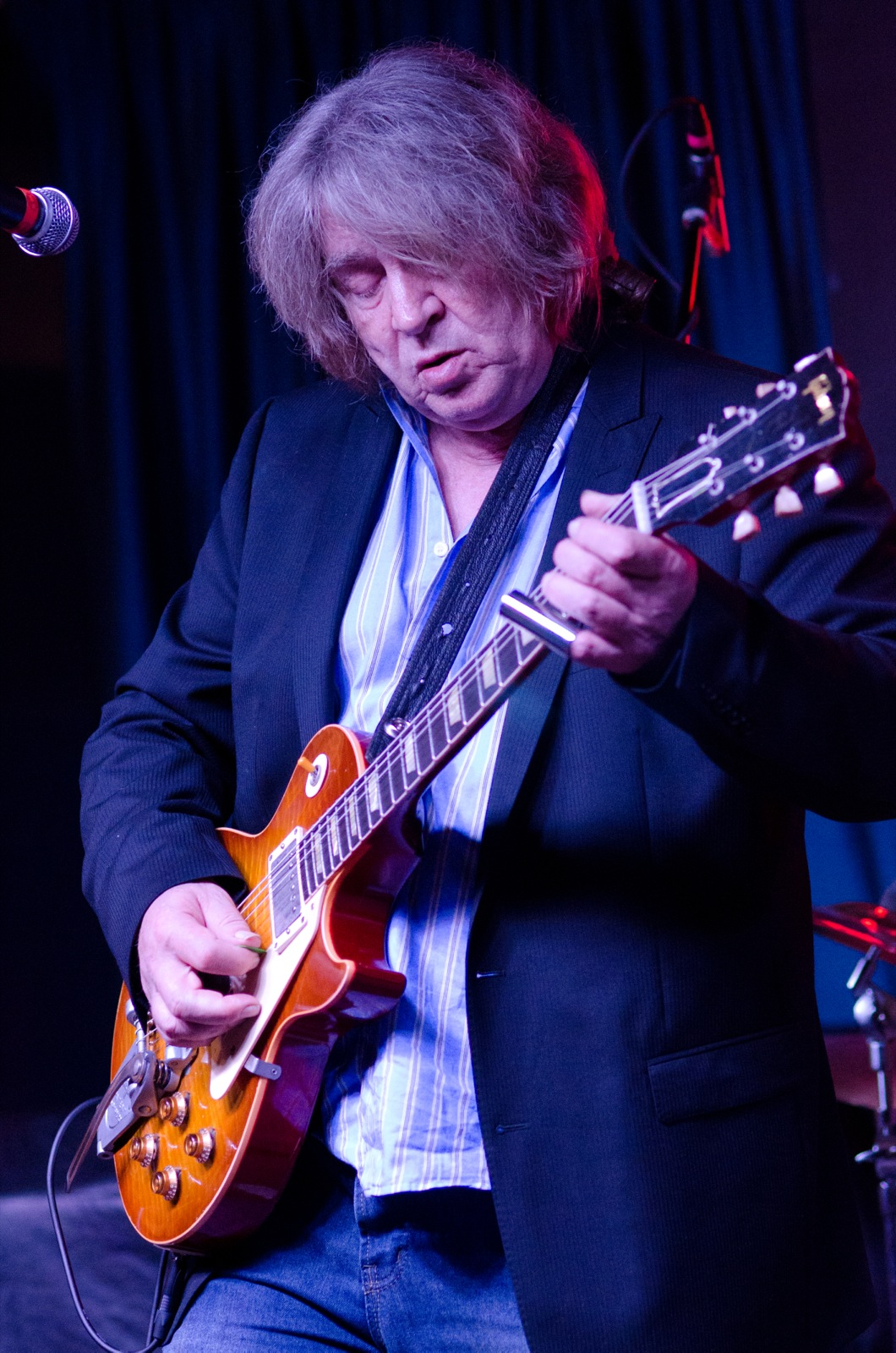 Mick Taylor, Iridium NYC, May 9, 2012